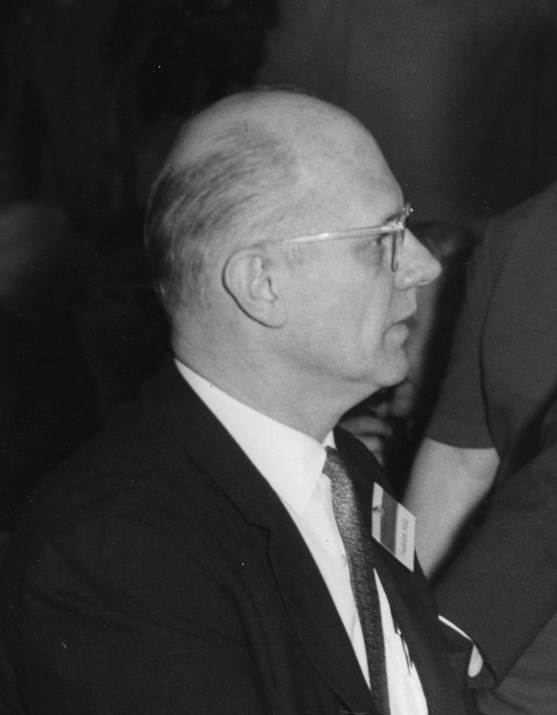 Frederick Seitz (July 4, 1911 – March 2, 2008) Creator/Photographer: Fremont Davis Medium: Black and white photographic print Date: 1963 Persistent URL: Collection: Accession 90-105: Science Service Records, 1920s – 1970s - Science Service, now the Society for Science & the Public, was a news organization founded in 1921 to promote the dissemination of scientific and technical information. Although initially intended as a news service, Science Service produced an extensive array of news features, radio programs, motion pictures, phonograph records, and demonstration kits and it also engaged in various educational, translation, and research activities. Accession number: SIA2007-0396